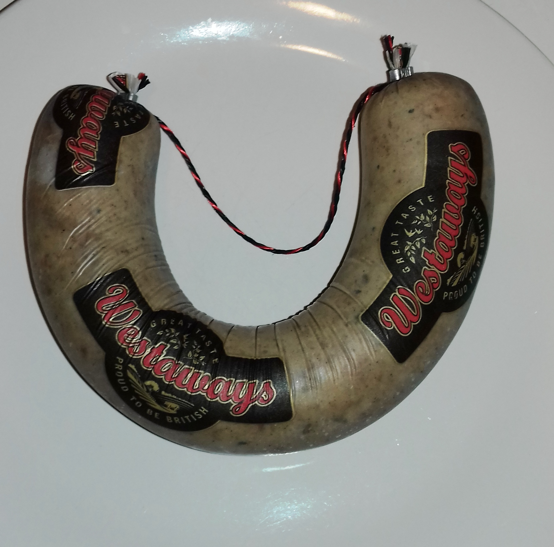 A whole, uncooked, hogs pudding. A traditional Cornish food.